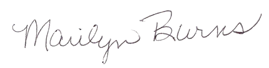 Marilyn Burns' signature